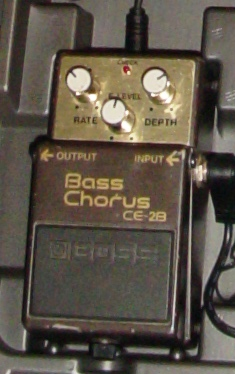 Boss CE-2B bass chorus from the 90's.